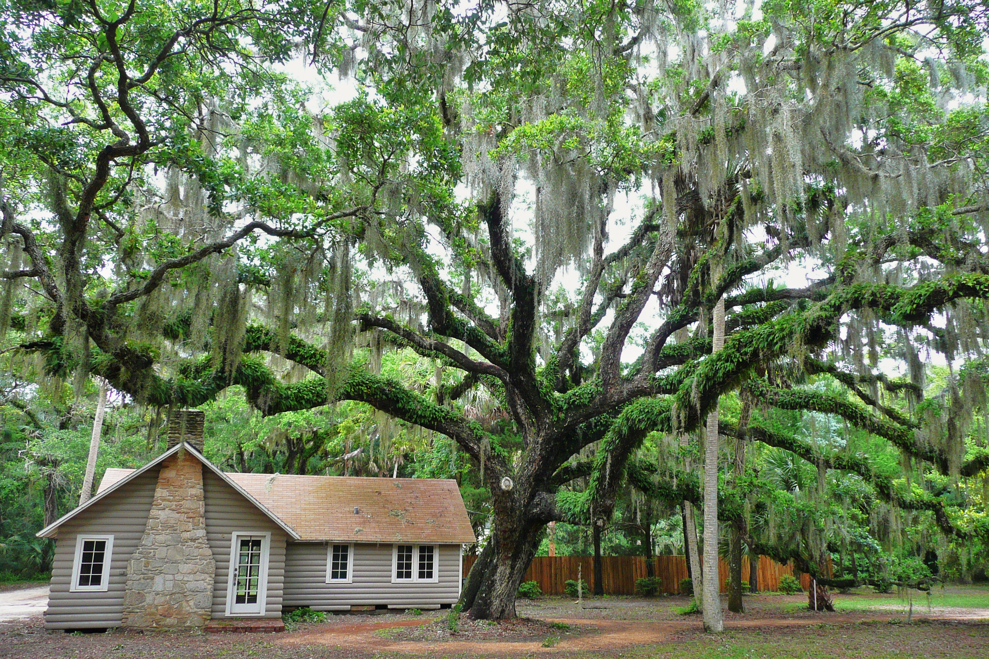 Digital photo taken by Marc Averette. Washington Oaks State Gardens near Palm Coast, Florida.